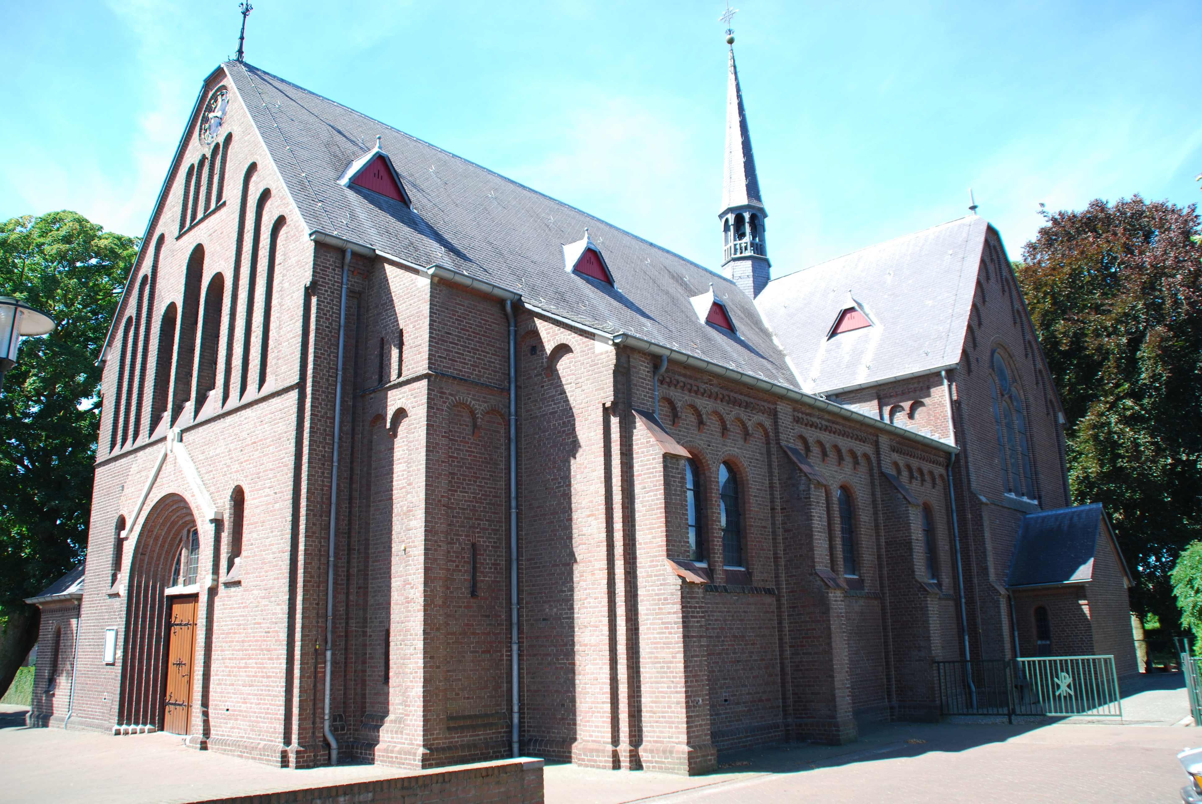 Sint-Josephkerk in America, the Netherlands. Build by J.H.H. Van Groenendael 1891-1892